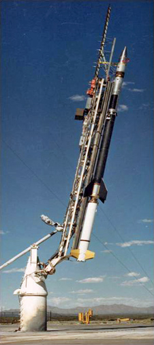 Black Brant 9 sounding rocket at Wallops Flight Facility. See this site for additional information about the Black Brant 9.